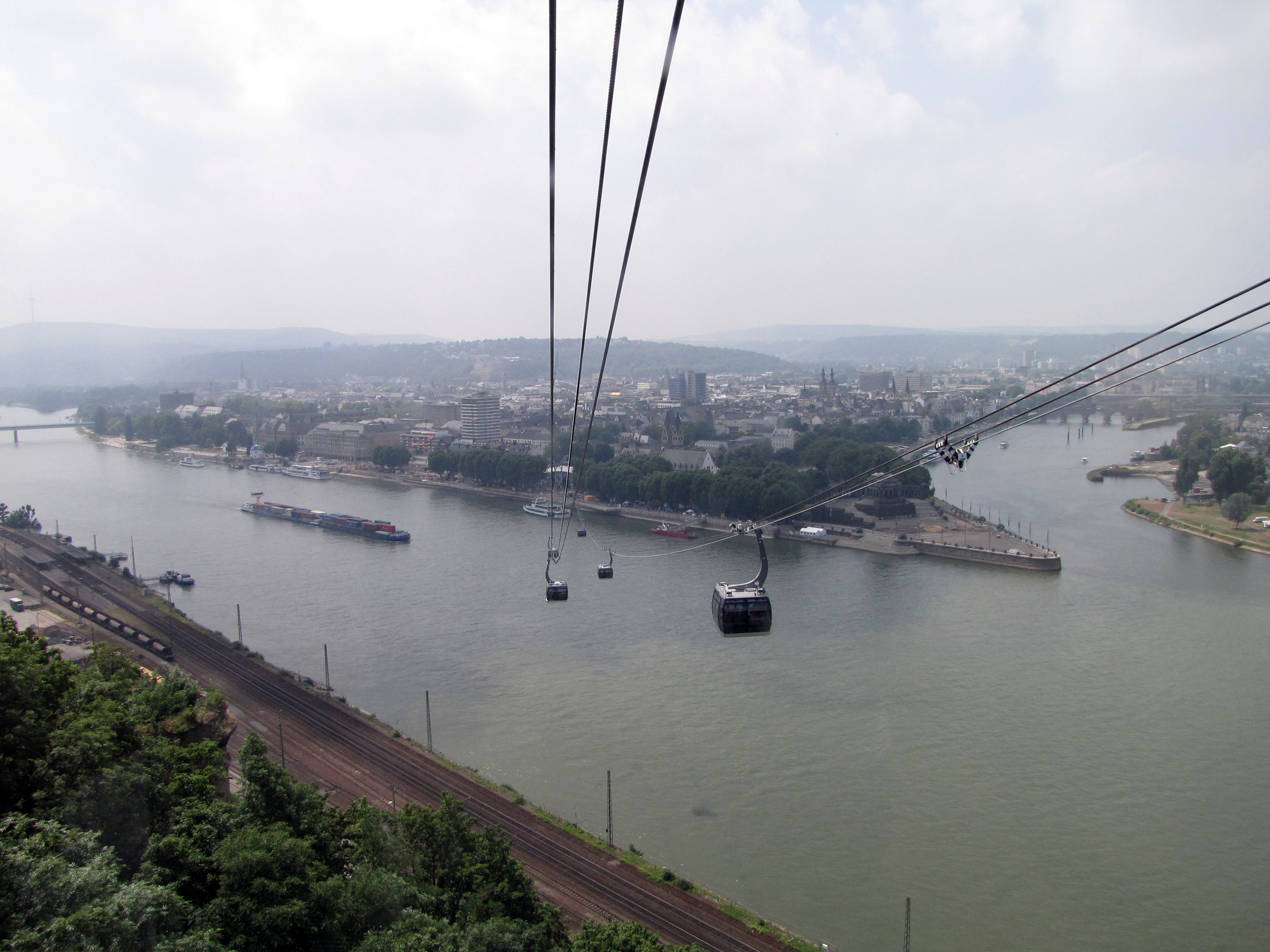 The National Garden Show 2011 in Koblenz - Koblenz Cable Car